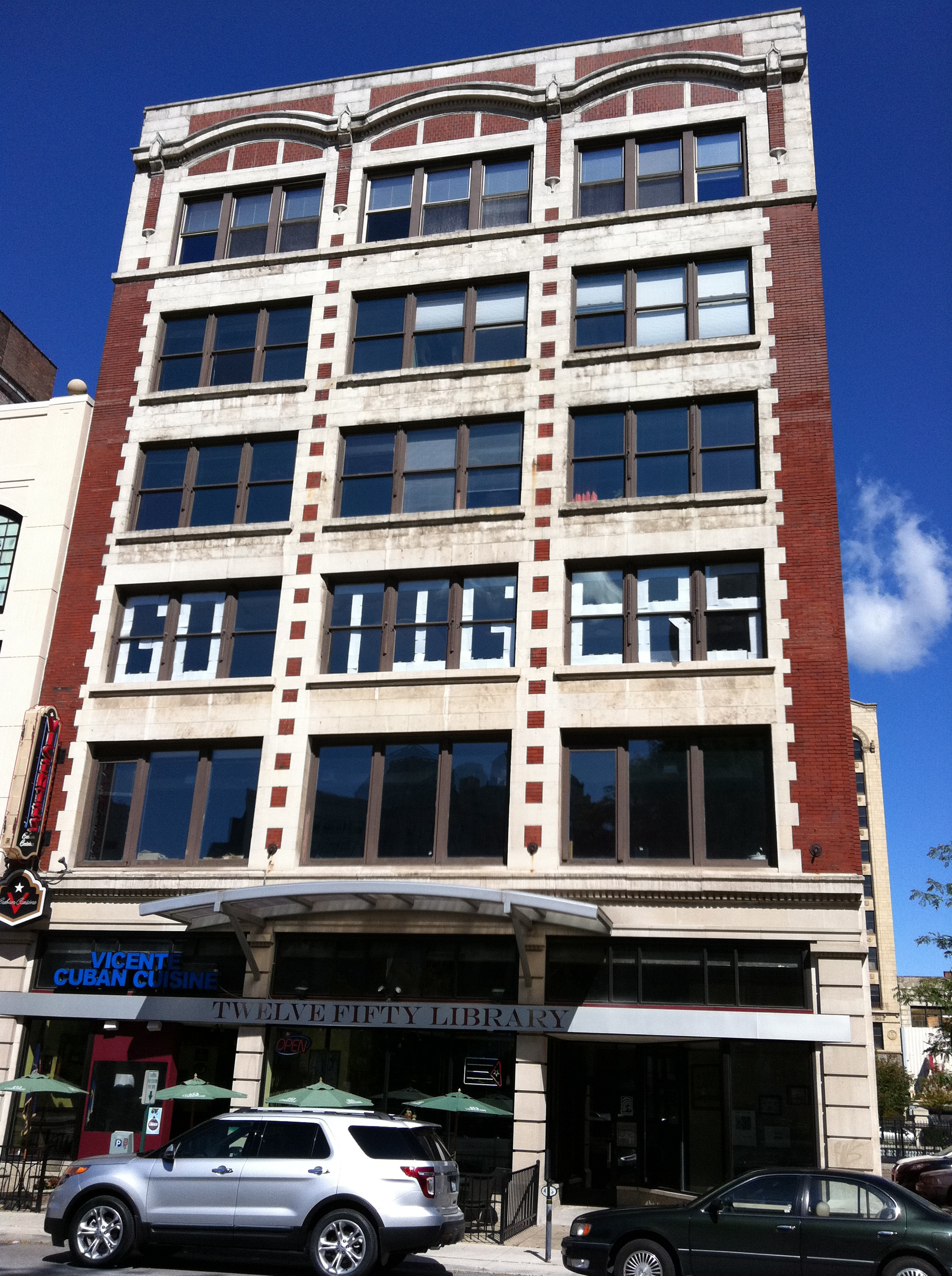 Remick and Company Building used as a medium for supporting the Detroit Tigers baseball team.